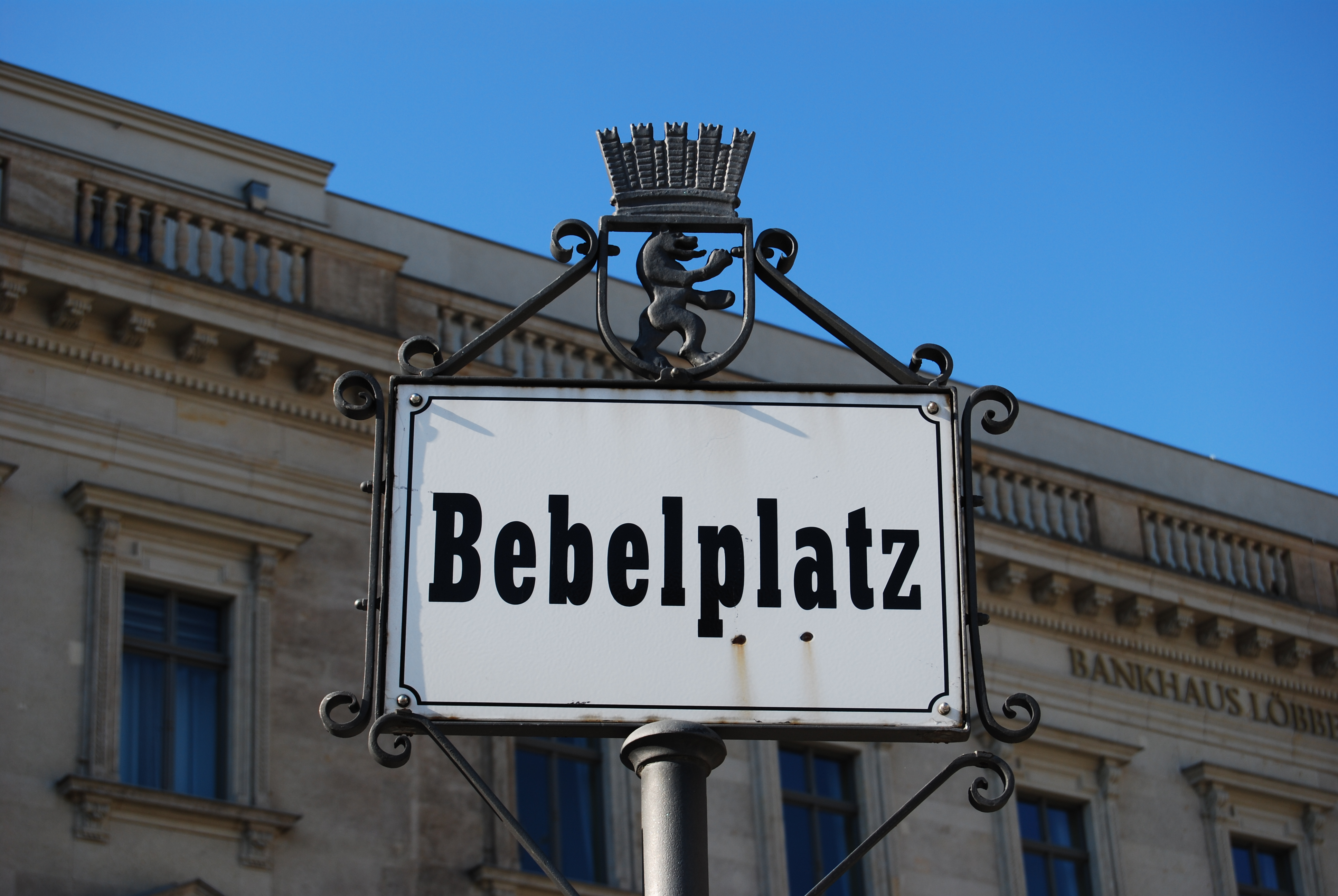 This is a photograph of an architectural monument.